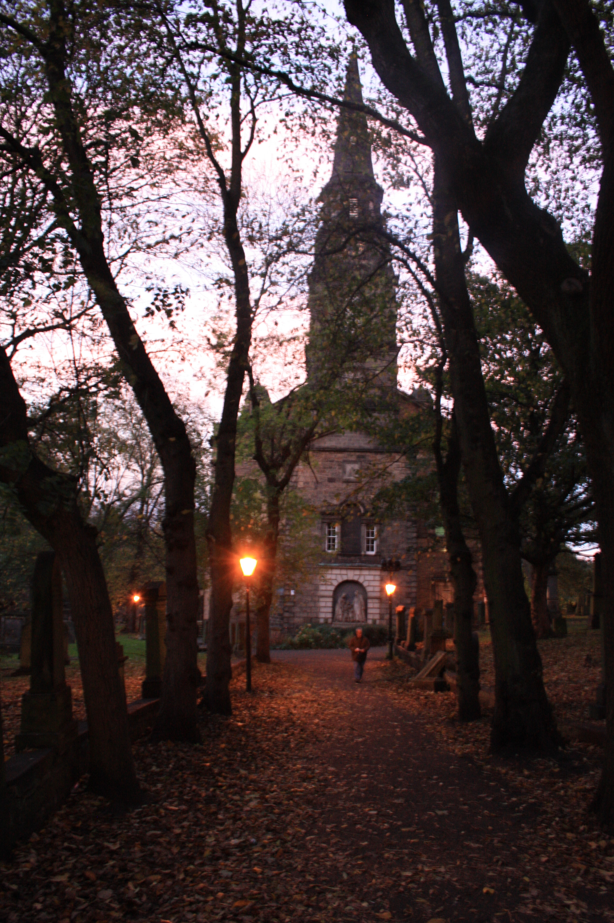 The western approach to St Cuthberts in Edinburgh, in the twilight